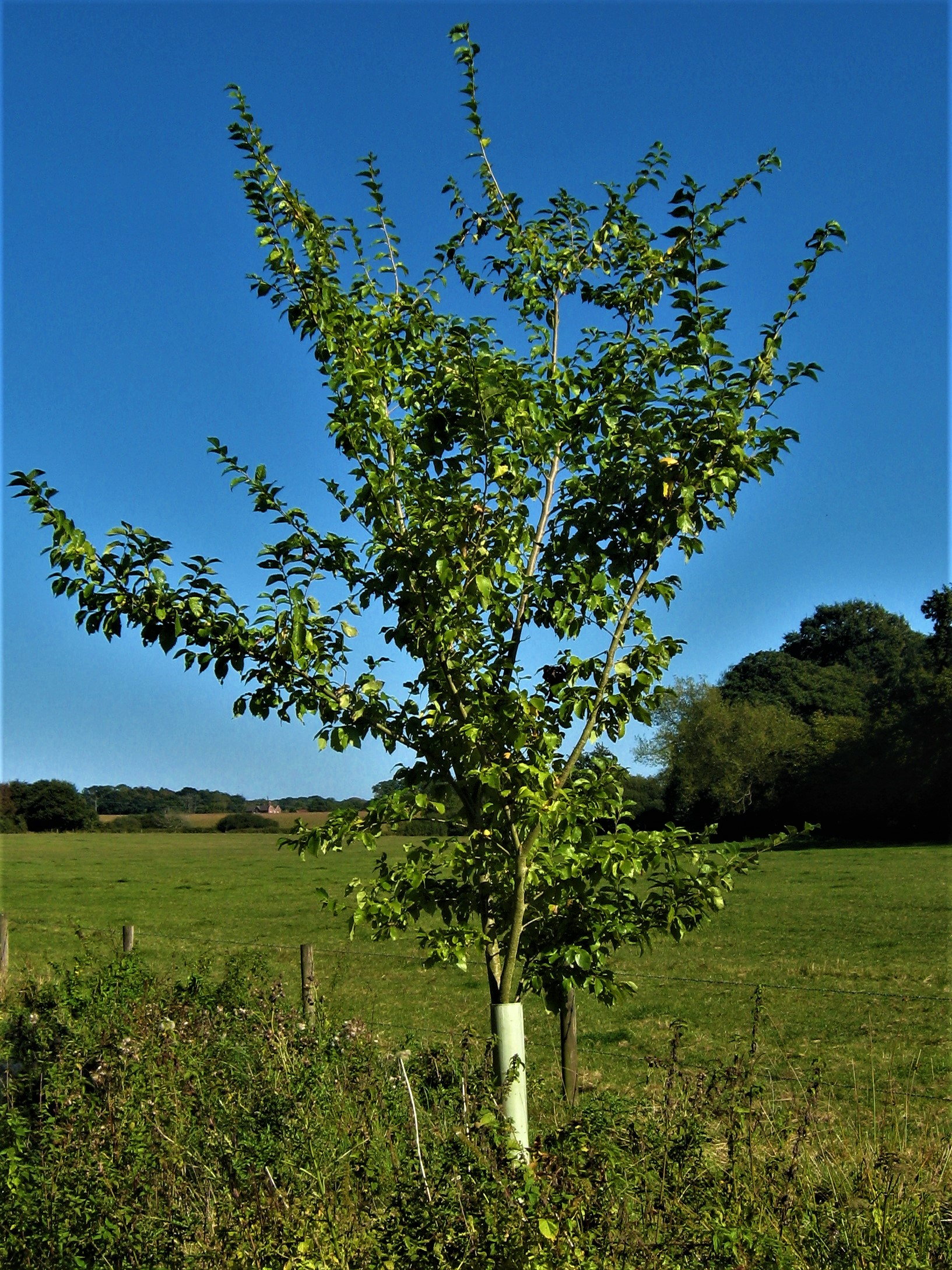 Photo of the hybrid elm cultivar 'Wingham', 6 years old, in the Wallington Valley, Boarhunt, UK